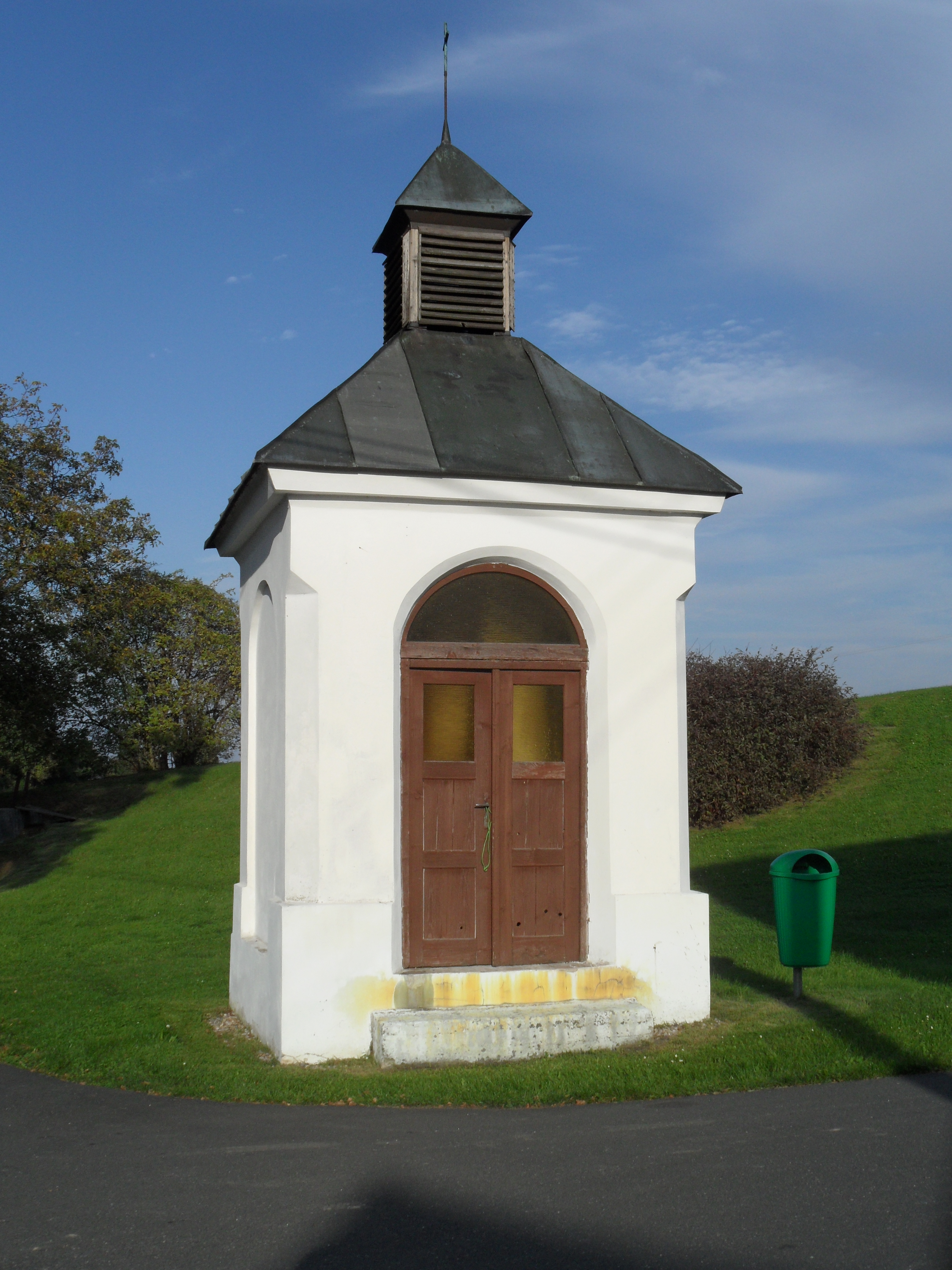 Těšínky (Ratboř) G. Chaple in the Centre of the Village, Kolín District, the Czech Republic.